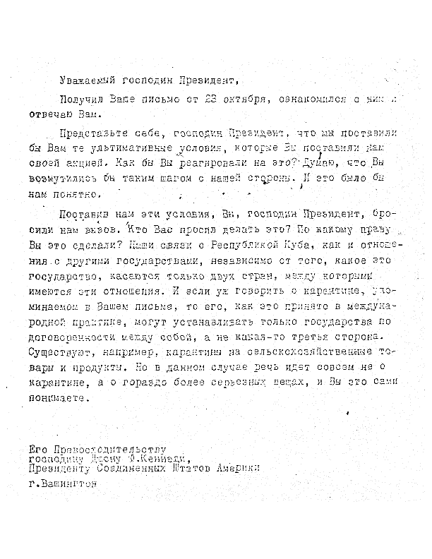 Nikita Kruschev letter to President Kennedy stating that the Cuban Missile Crisis quarantine "constitute[s] an act of aggression propelling humankind into the abyss of a world nuclear-missile war."